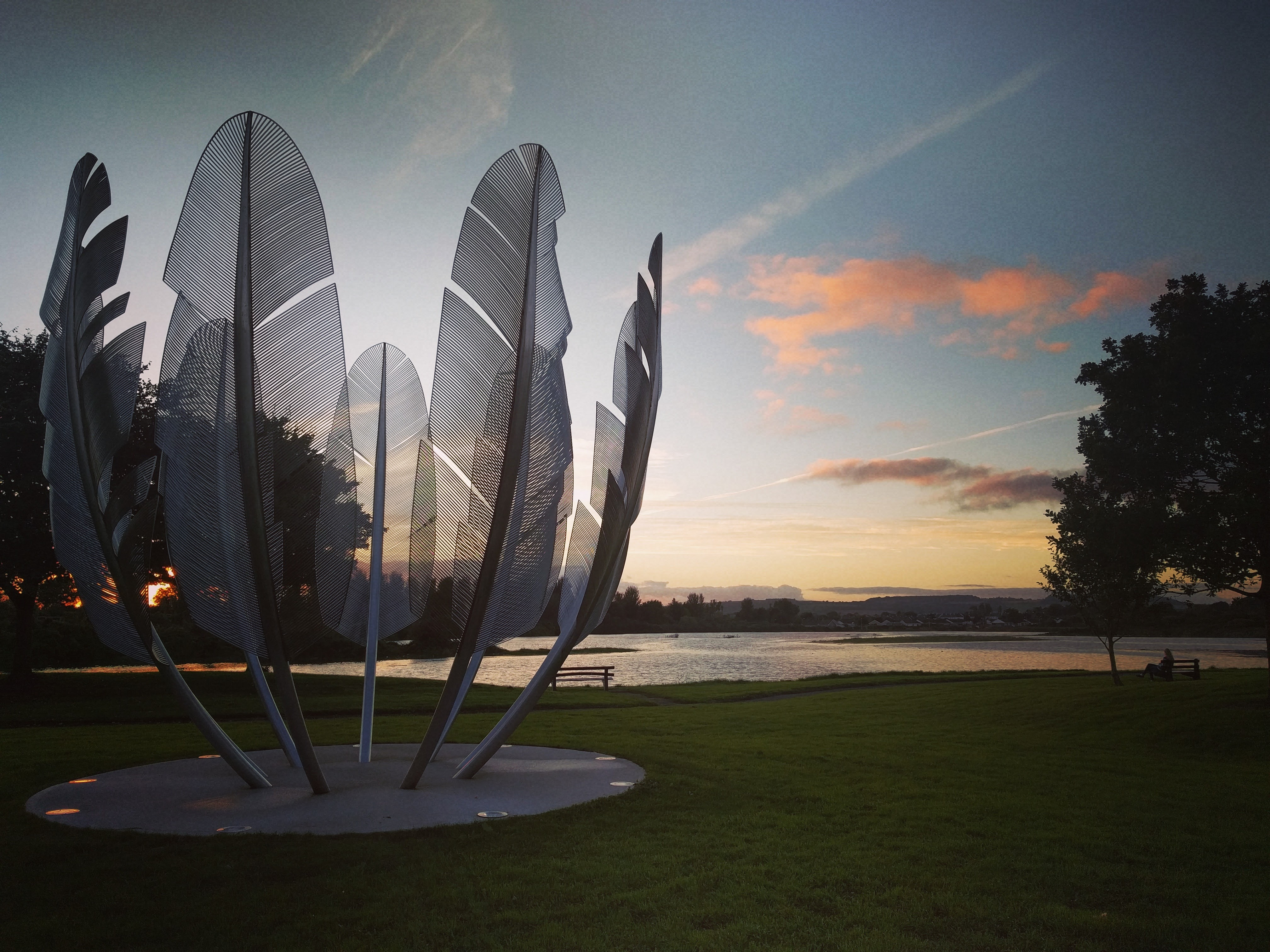 Built in Midleton, Co Cork, this is a sculpture to remember the aid given b the Chocktaw Nation during the Great Famine.